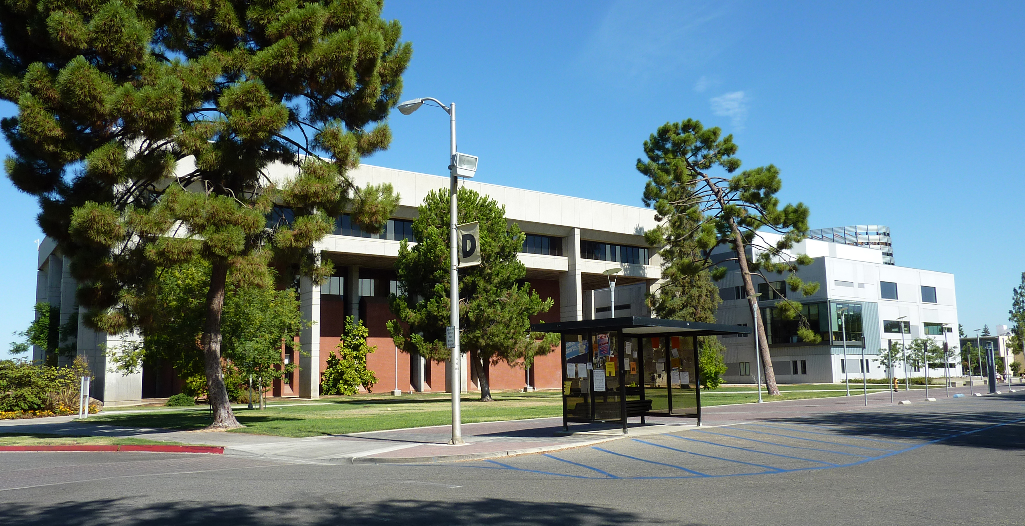 Henry Madden Library, Fresno State, Fresno, California, USA.